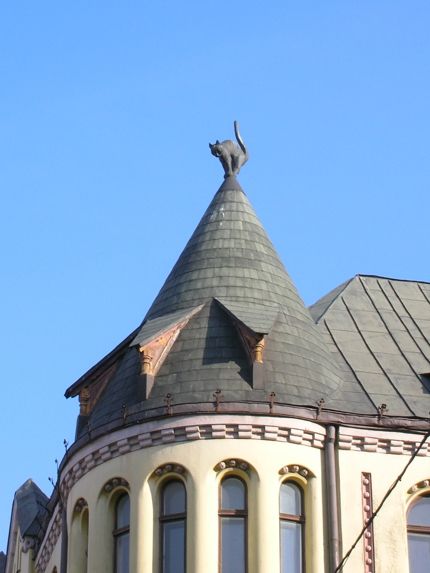 Riga - Cat's House.